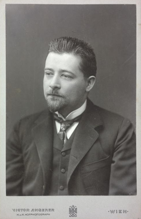 Josef Redlich (1869-1936), Austrian politician